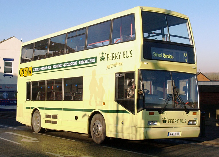 A East Lancs Cityzen formerly run by The Kings Ferry. It has a Scania N113DRB chassis, built in 1999.